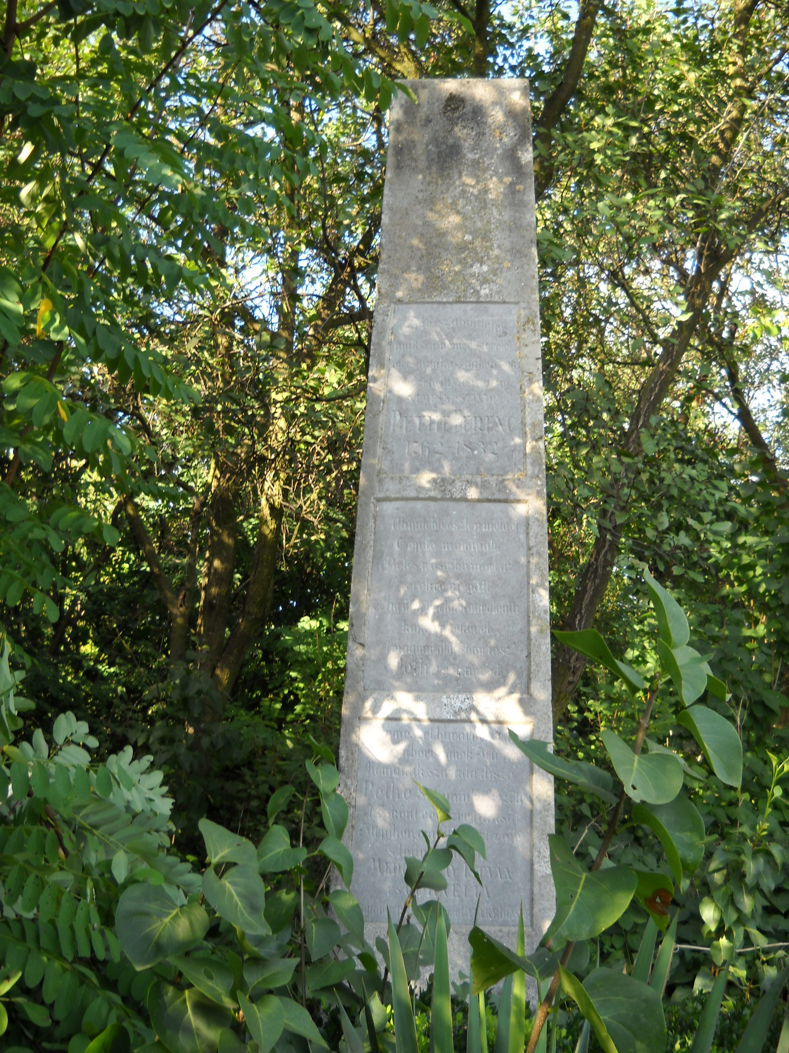 Tomb of Ferenc Pethe